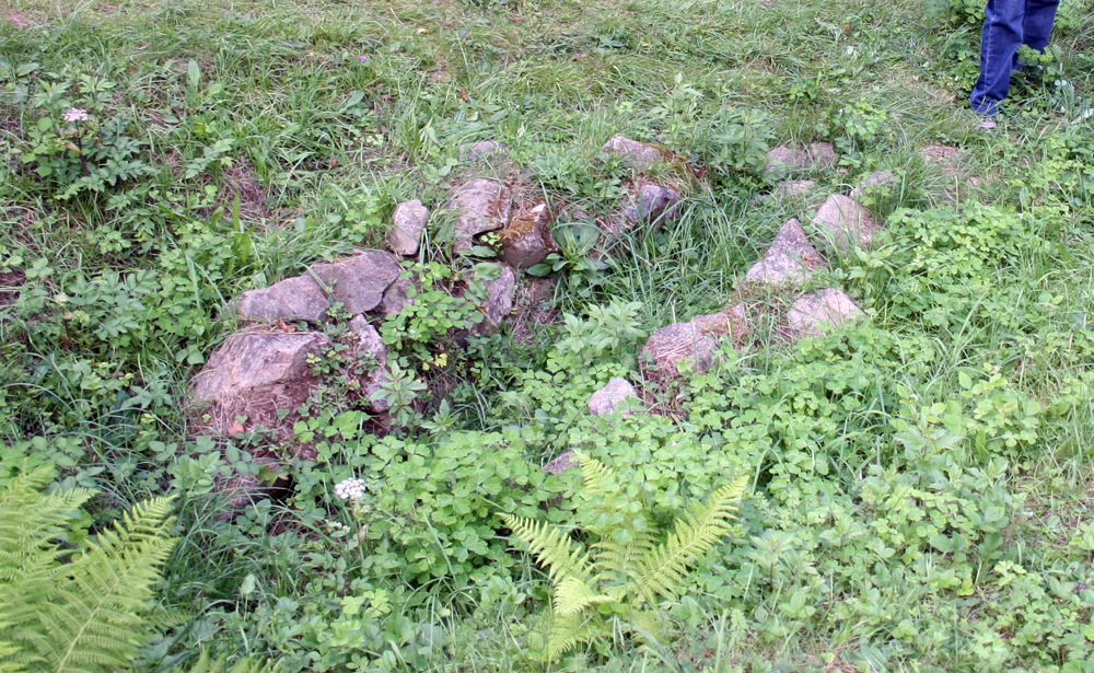 trench on the controversial Glozel site, Ferrières-sur-Sichon, France